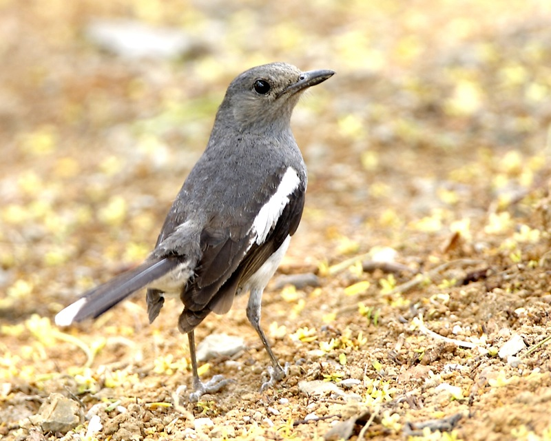 Oriental Magpie Robin (Copsychus saularis saularis) A female in a public park, Dhaka, Bangladesh on 1 May 2007.